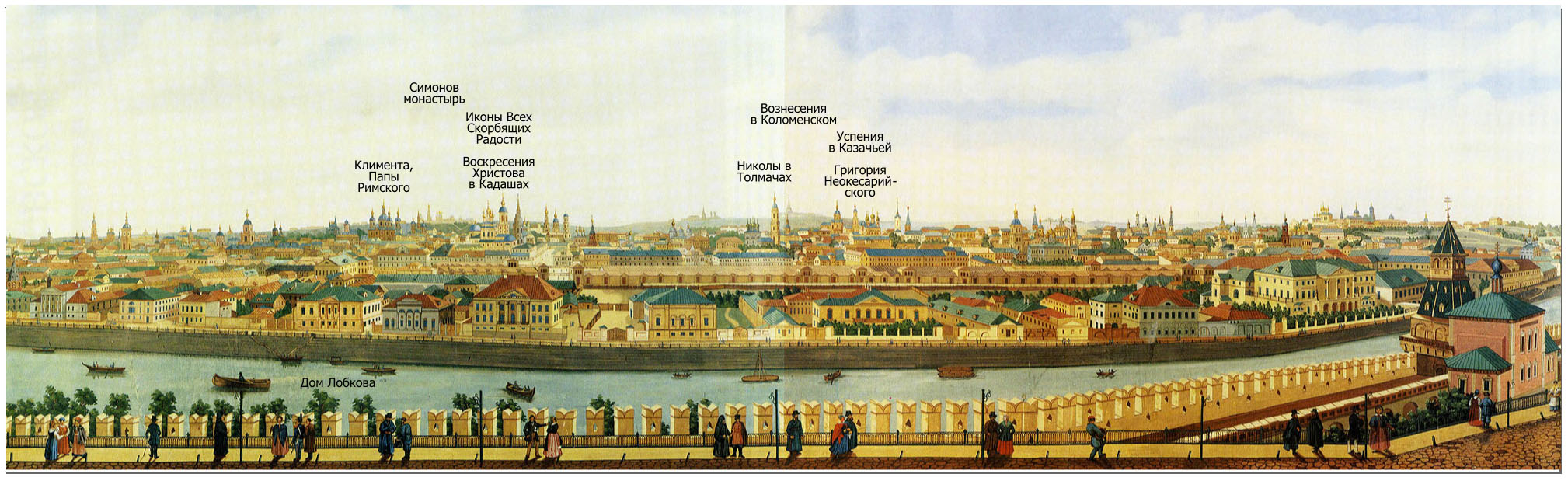 Two central sheets from Panorama of Moscow, a 1850 set of 8 watercolors by D. Indeytsev. Main extant landmarks referenced in Russian.